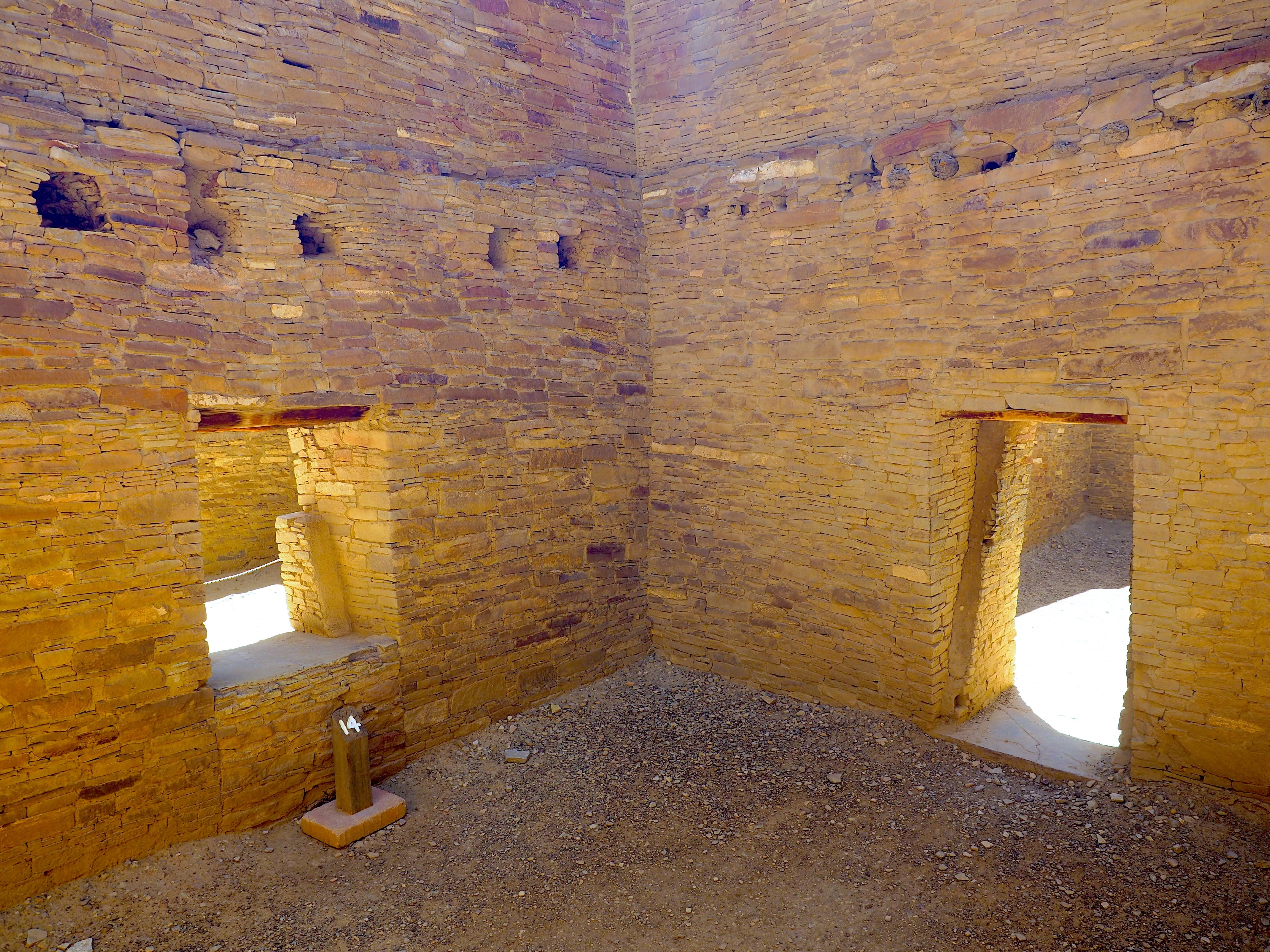 Chaco Canyon - New Mexico, U.S.